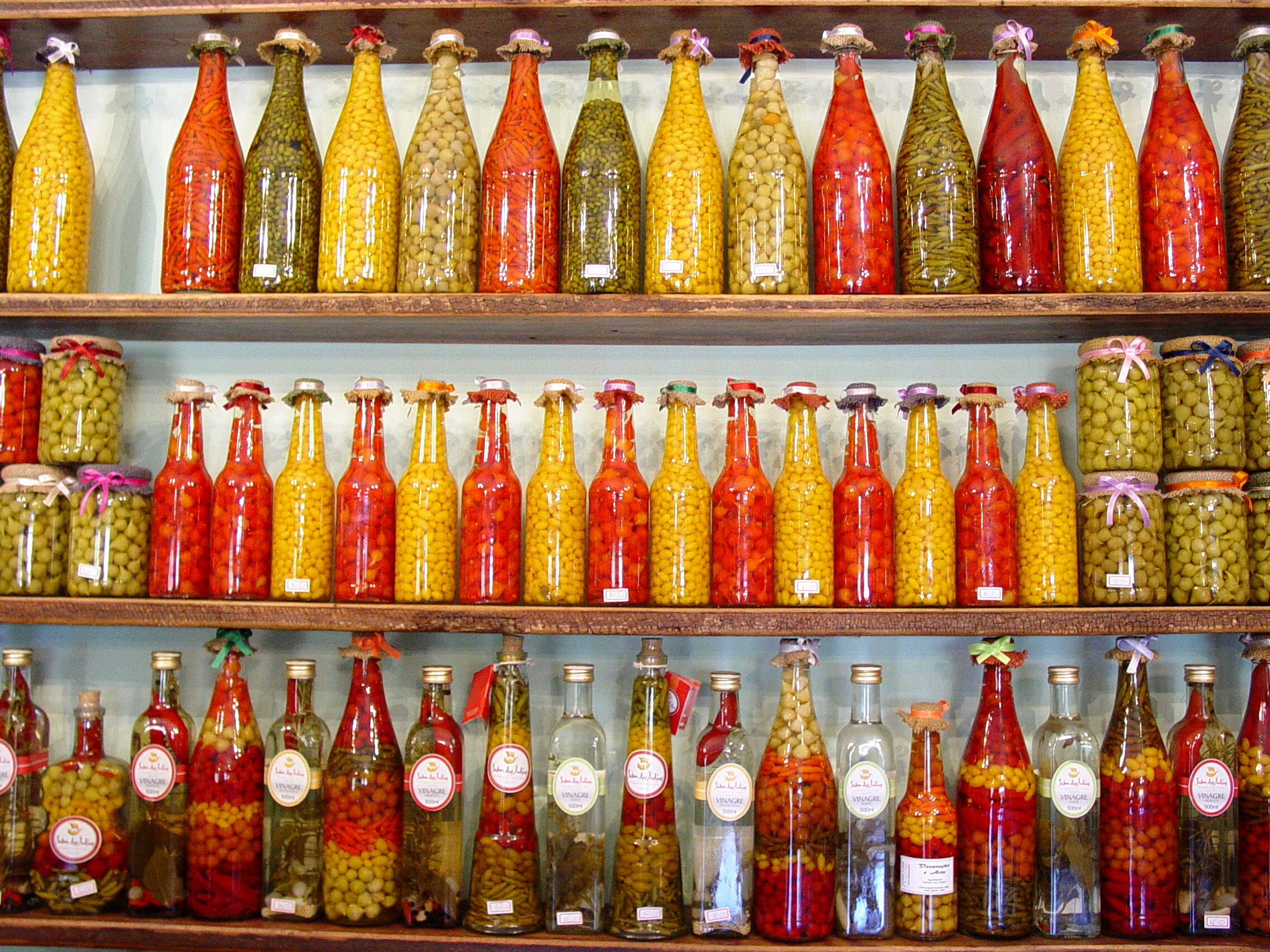 Pickled vegetables in a boutique in Tiradentes, Minas Gerais state, Brazil. July 2006.